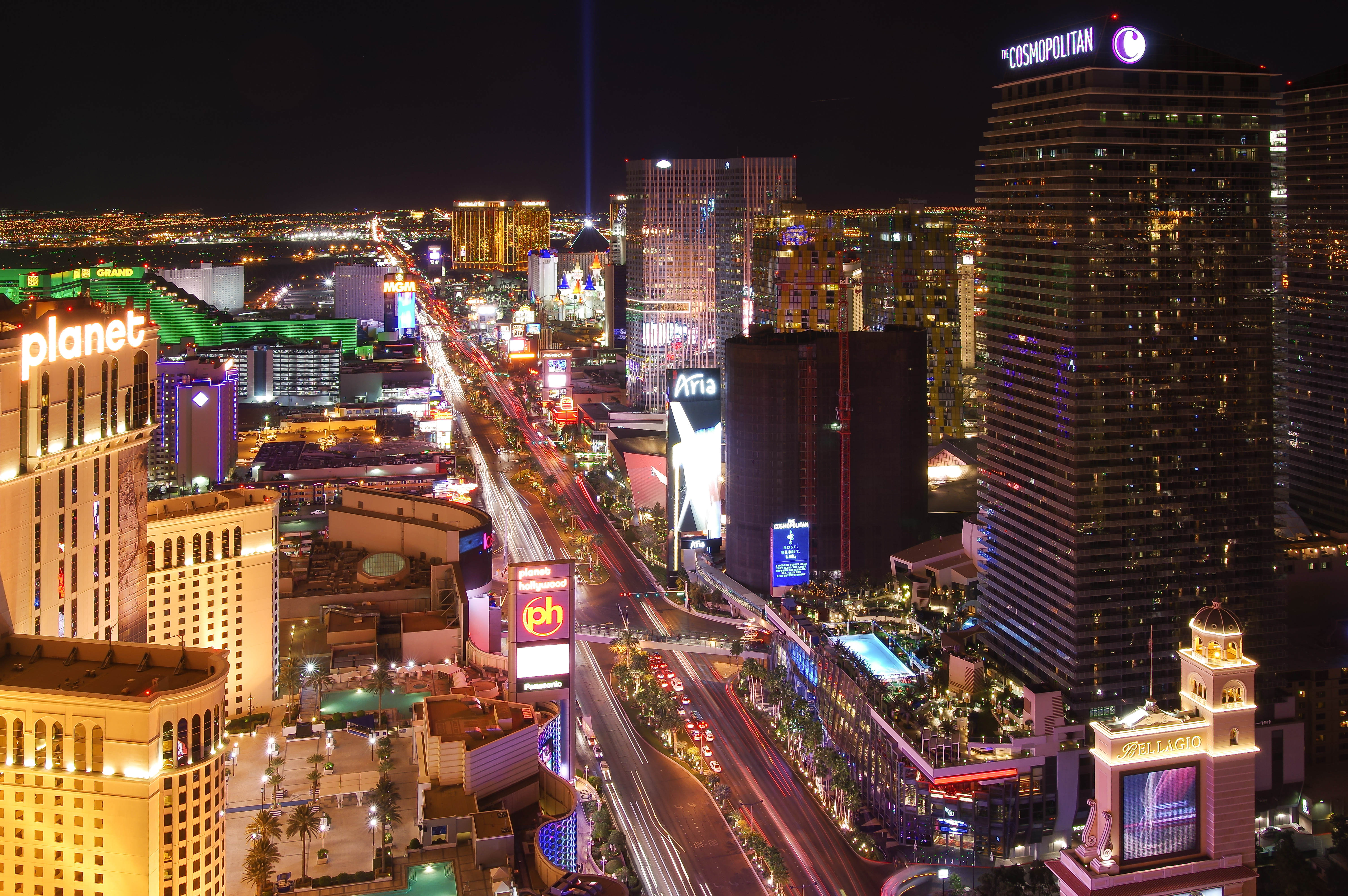 Las Vegas Strip, Cosmopolitan Hotel, Planet Hollywood Hotel and Casino, Luxor and MGM Grand at night